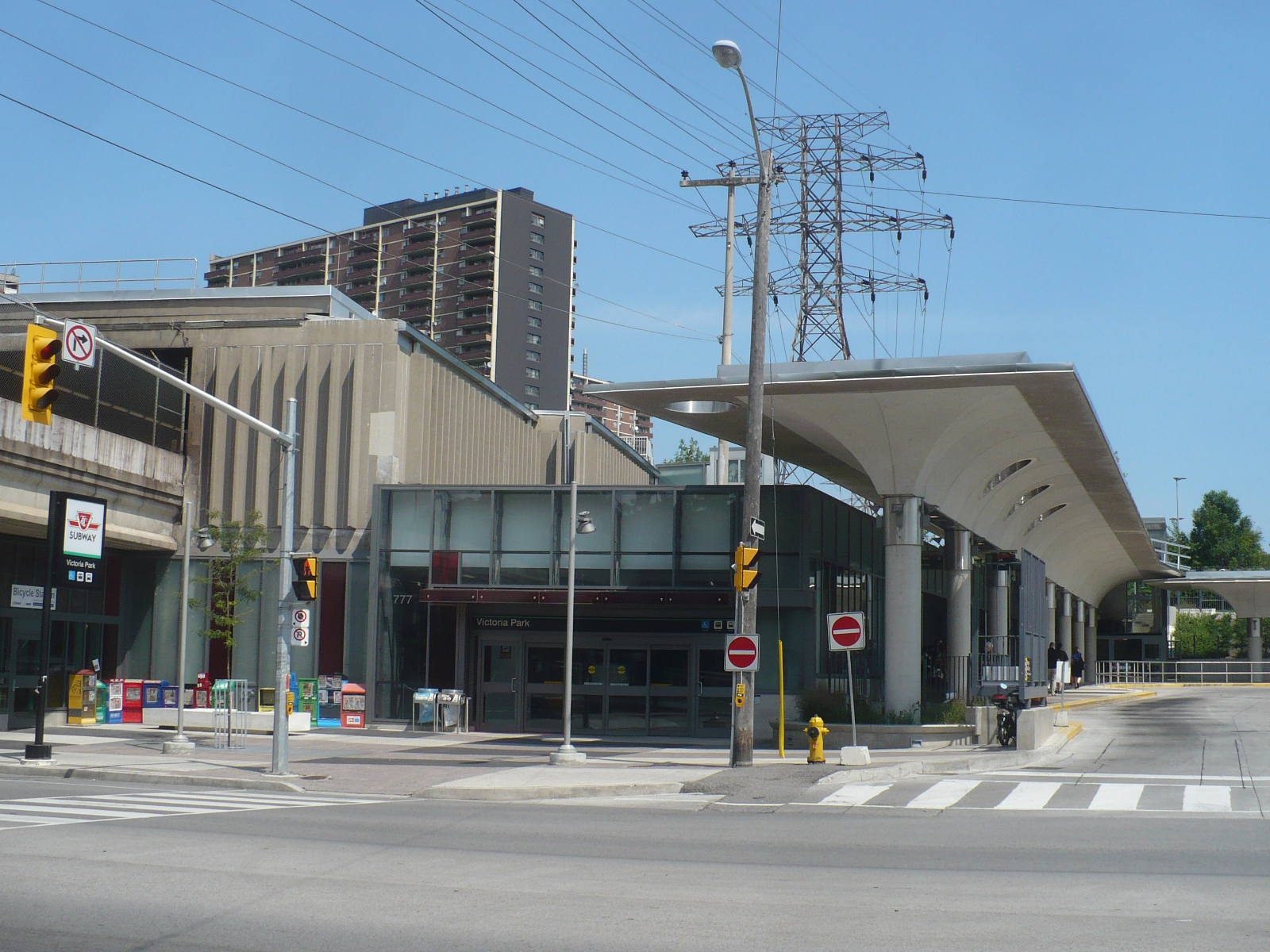 After the renovation at Victoria Park subway station in Toronto. From left to right:bicycle storage below the overhead tracks into the elevated station, the new entrance from the street, and the bus platforms now in an L configuration at street level.